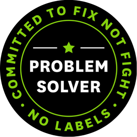 No Labels Problem Solver Seal